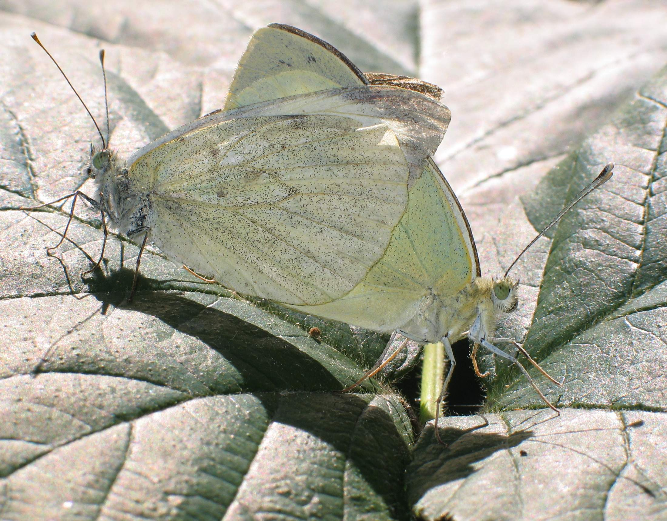 A Couple of Large White (Pieris brassicae). Author: soebe Date: August 17, 2005 Location: Eckernförde, Northern Germany Taken by Soebe in Northern Germany (Eckernförde) and released under GNU FDL.